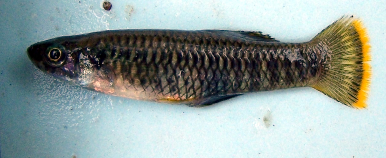 Taken from Quebrada Grande, Guanacaste, Costa Rica